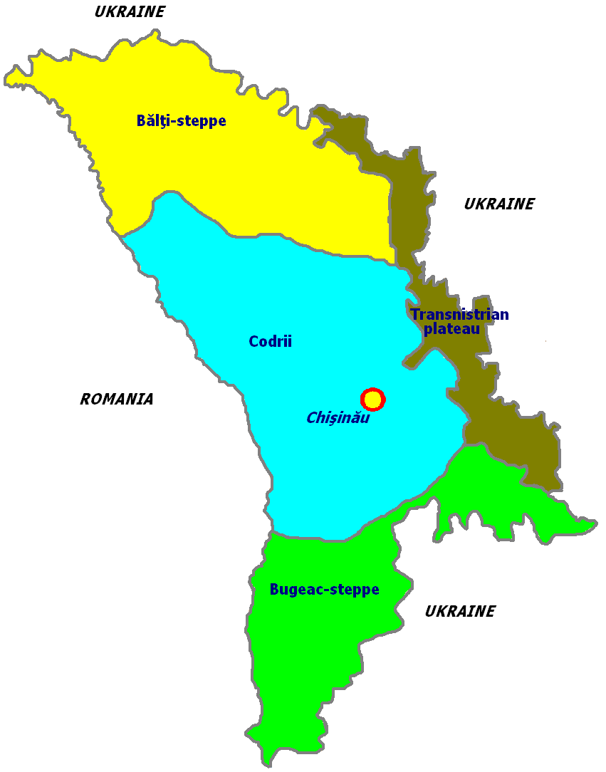 Geomorphological and Phytogeographical map of Moldova.